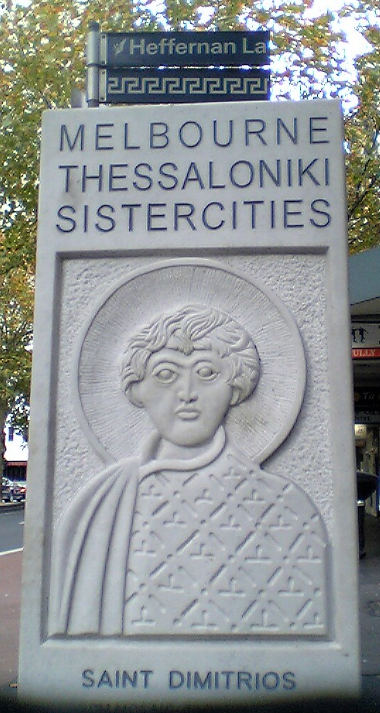 Melbourne - Thessaloniki sister cities stele in Lonsdale Street, Melbourne. Photo by Tom Worthington, 17 May 2009.